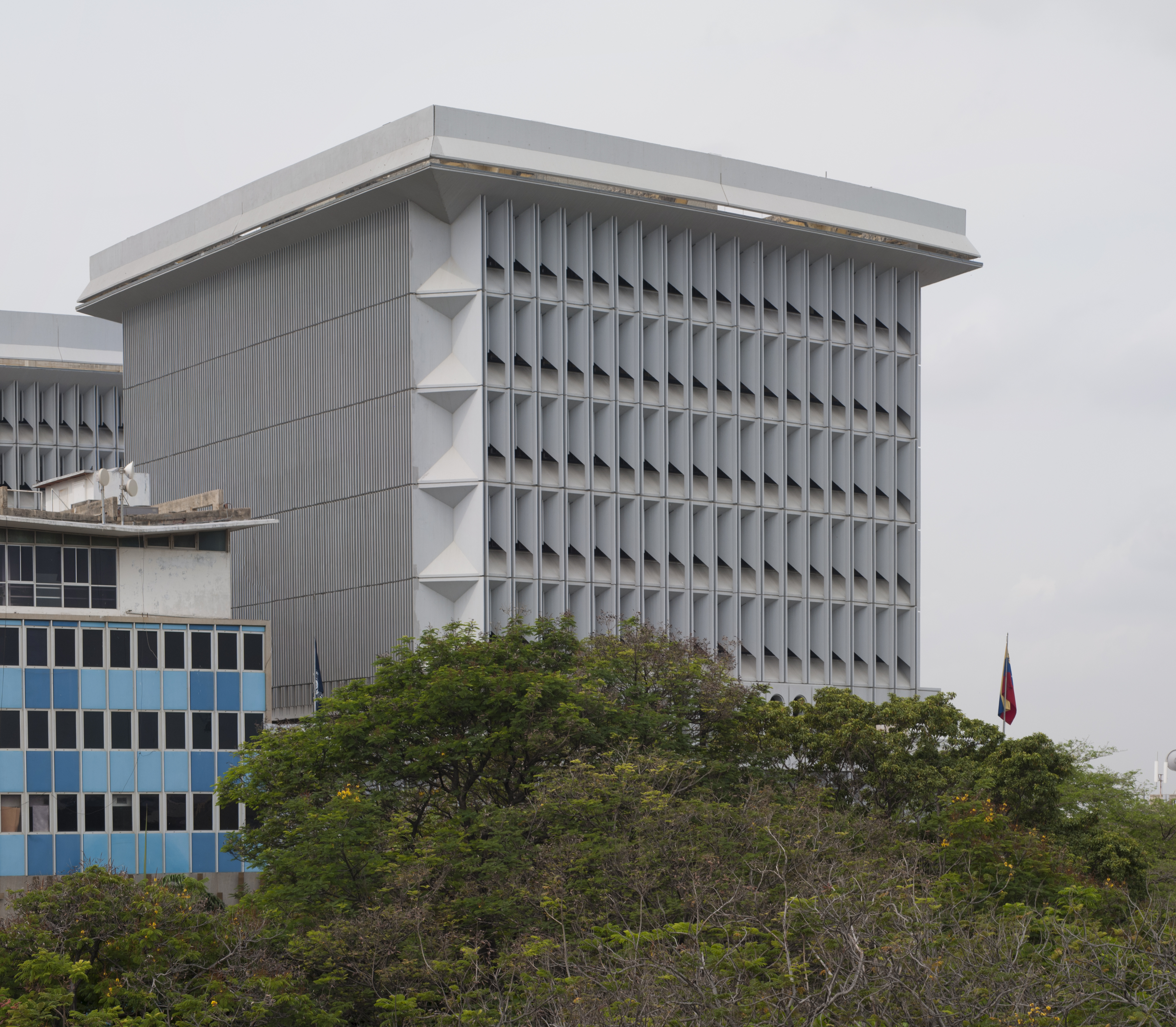 Torre del Banco Central de Venezuela in Maracaibo